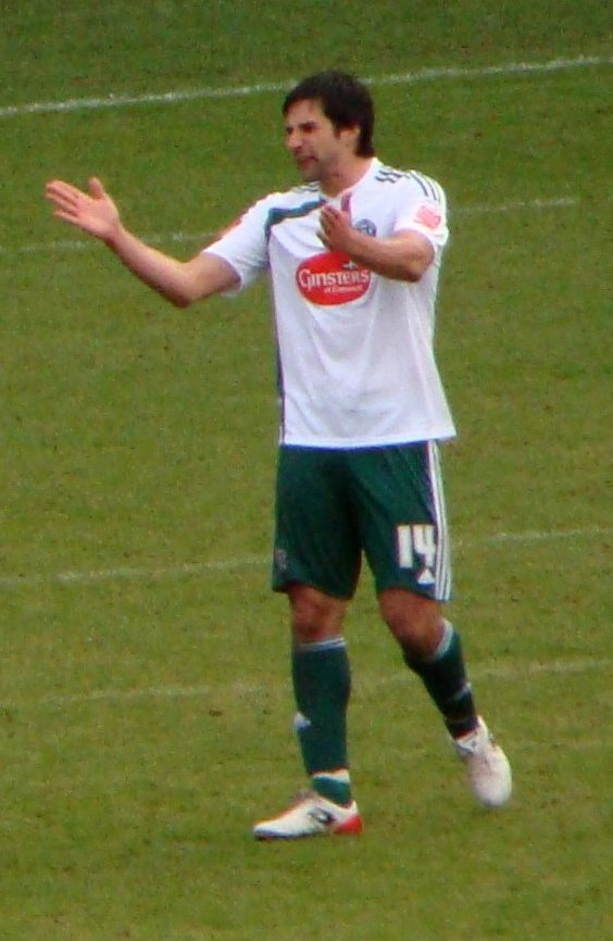 26/12/09 Cardiff V Plymouth, Championship , Cardiff City Stadium, Cardiff, Wales